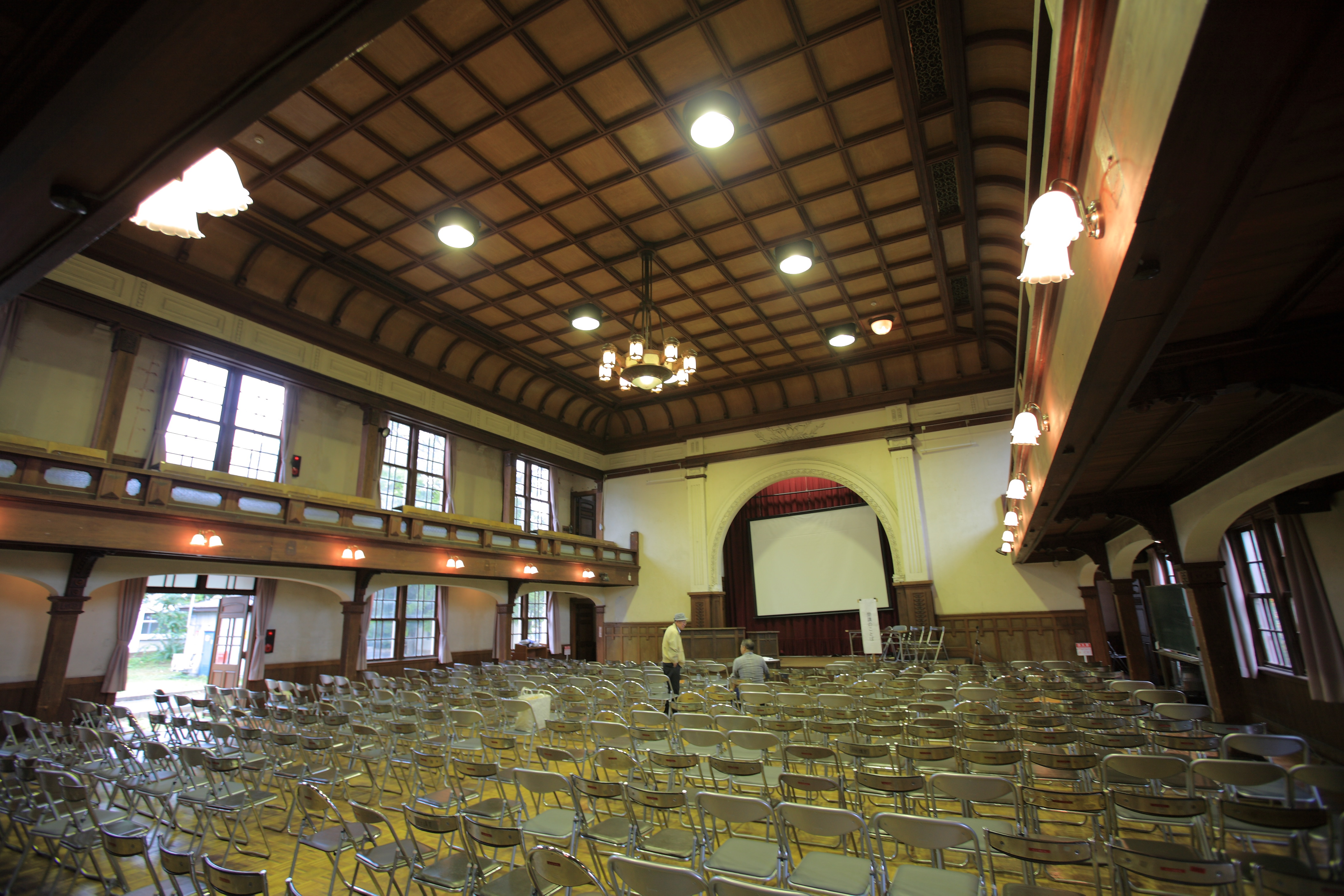 Shinshu university, Ueda Campus, Auditorium. Cultural property. Construction 1929.